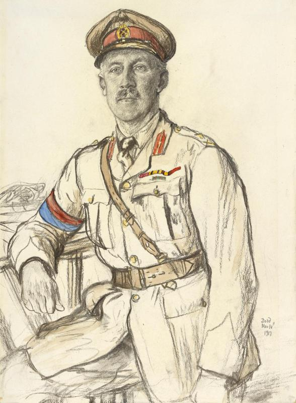 Major-general James Frederick Noel Birch, Cb image: a three quarter length portrait of Major-General Noel Birch in uniform, his right arm resting on a table.